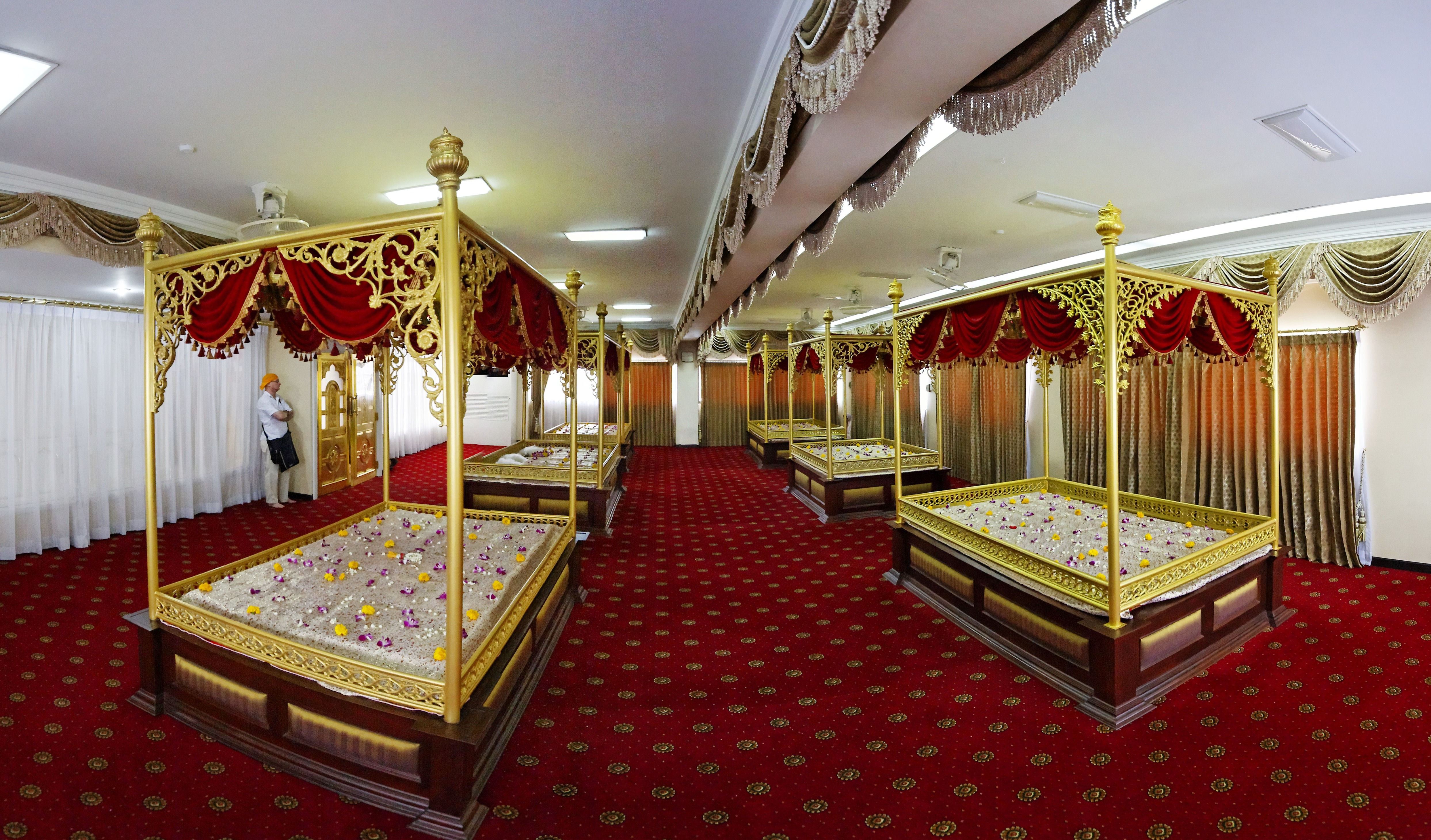 Gurdwara Sri Guru Singh Sabha, Bangkok, Thailand